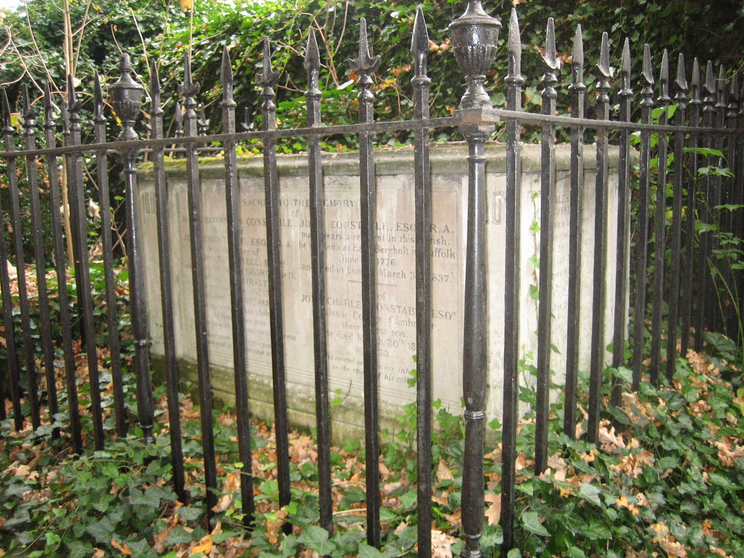 The Constable Tomb